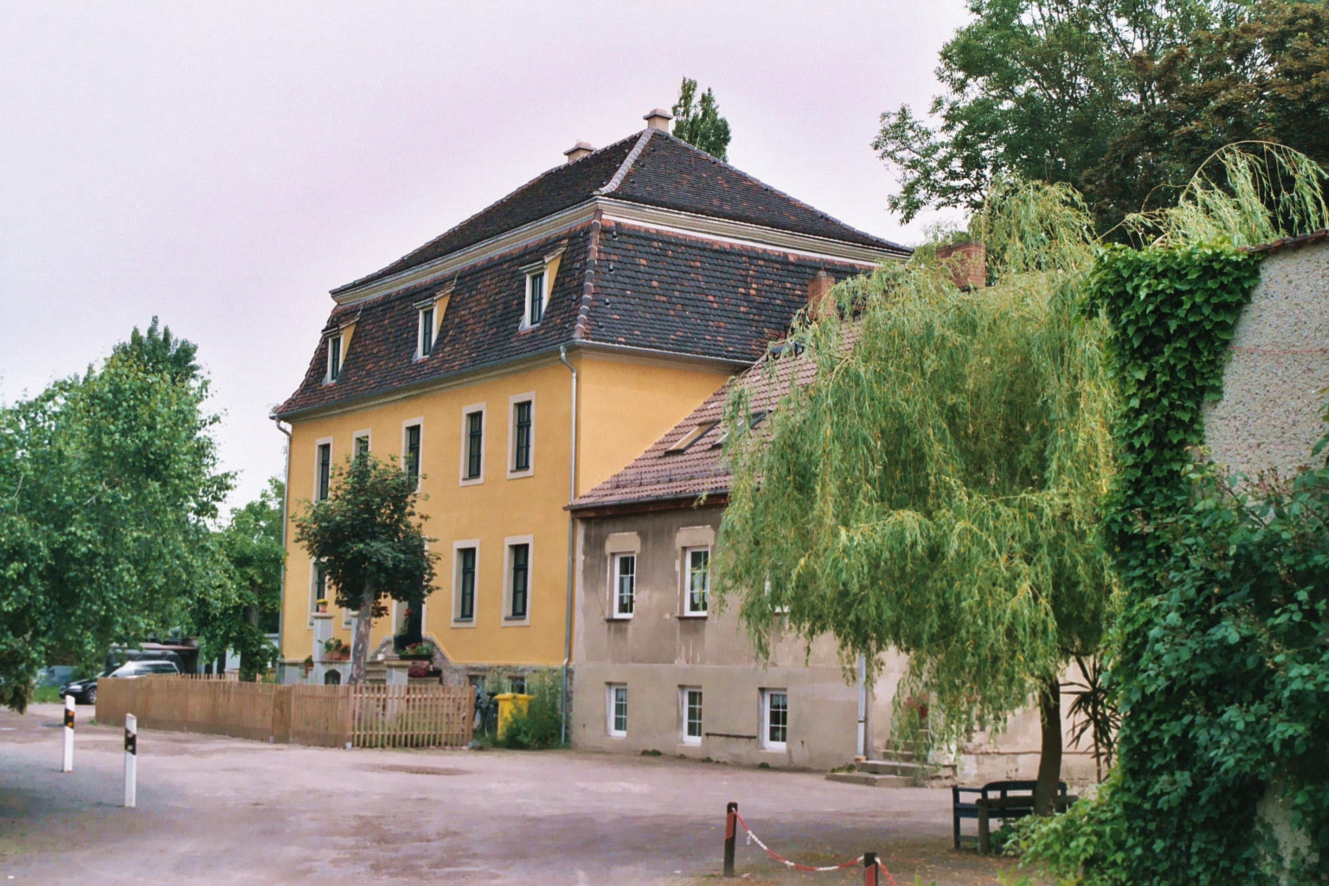 Niemberg (Landsberg), the manor house